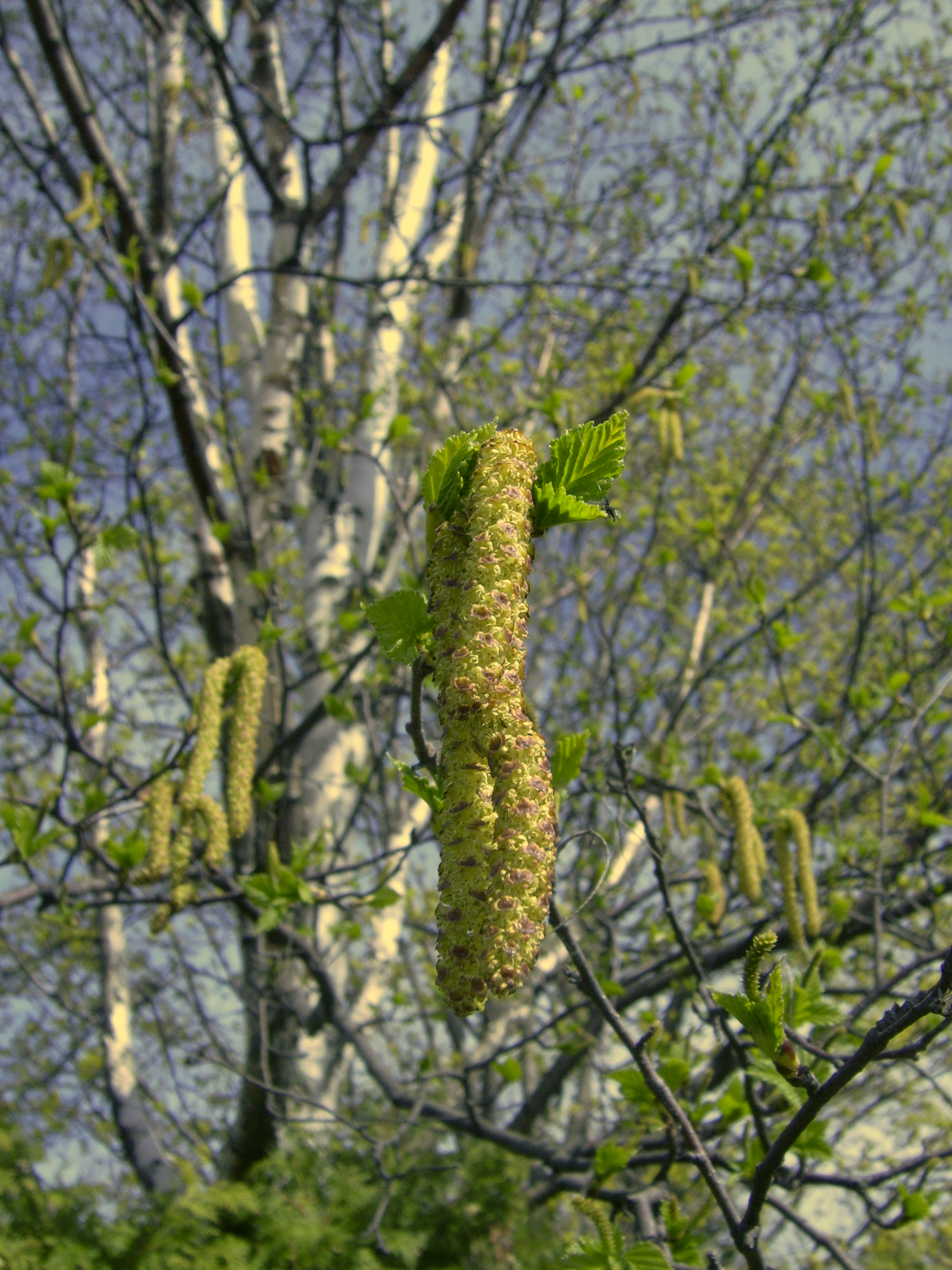 White birch catkin (Betula papyrifera), Whitefish Island, Batchewana First Nation